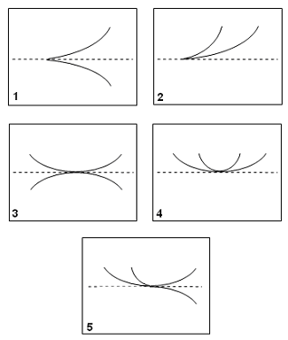 Classification of cusps. (1) Single cusp of the first kind. (2) Single cusp of the second kind. (3) Double cusp of the first kind. (4) Double cusp of the second kind. (5) Osculinflection.